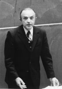 Prof. Günter Pickert, German Mathematician